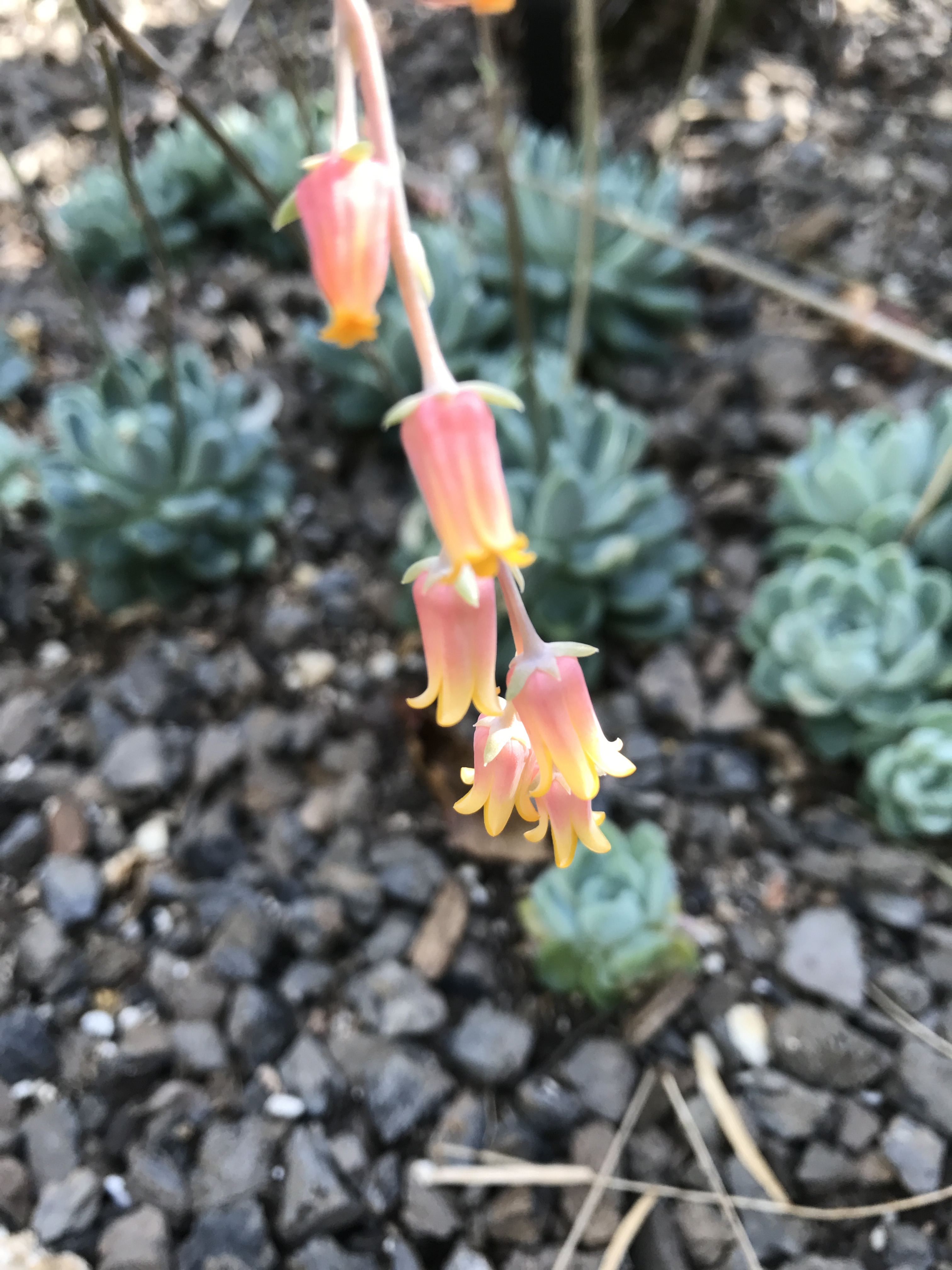 Flowers of cacti with cacti in background, echeveria elegans.